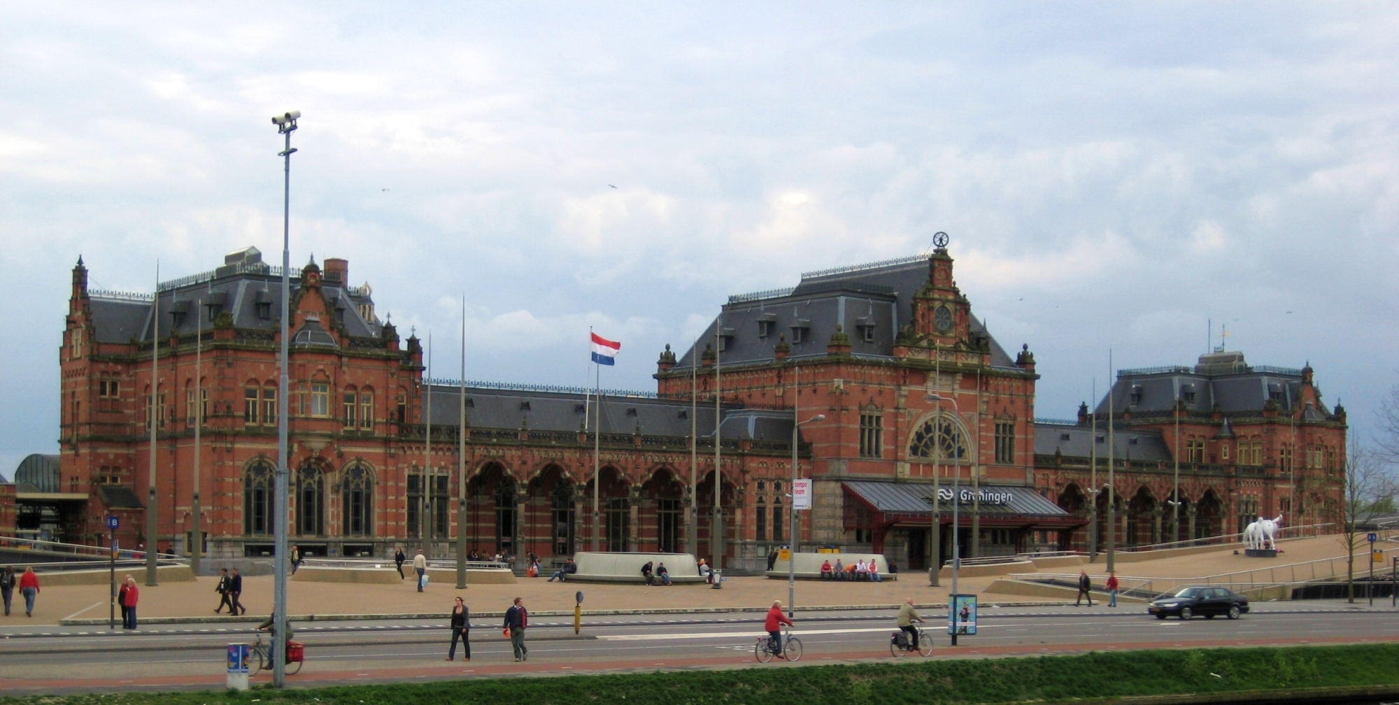 The main train station of the Dutch city of Groningen.